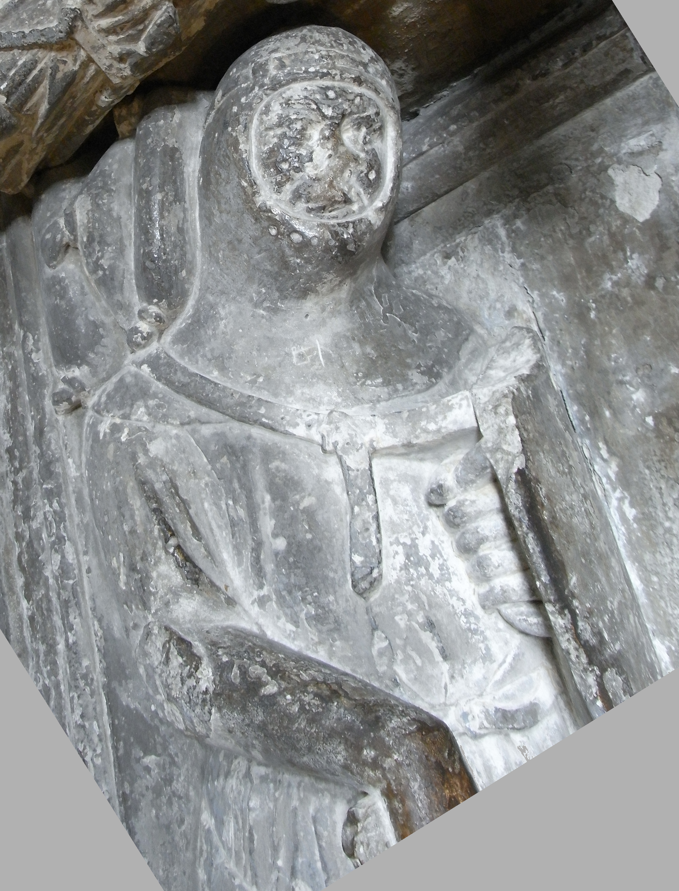 Sir Richard de Stapledon (d.1326) of Annery in the parish of Monkleigh, Devon, detail of effigy in Exeter Cathedral, Devon.